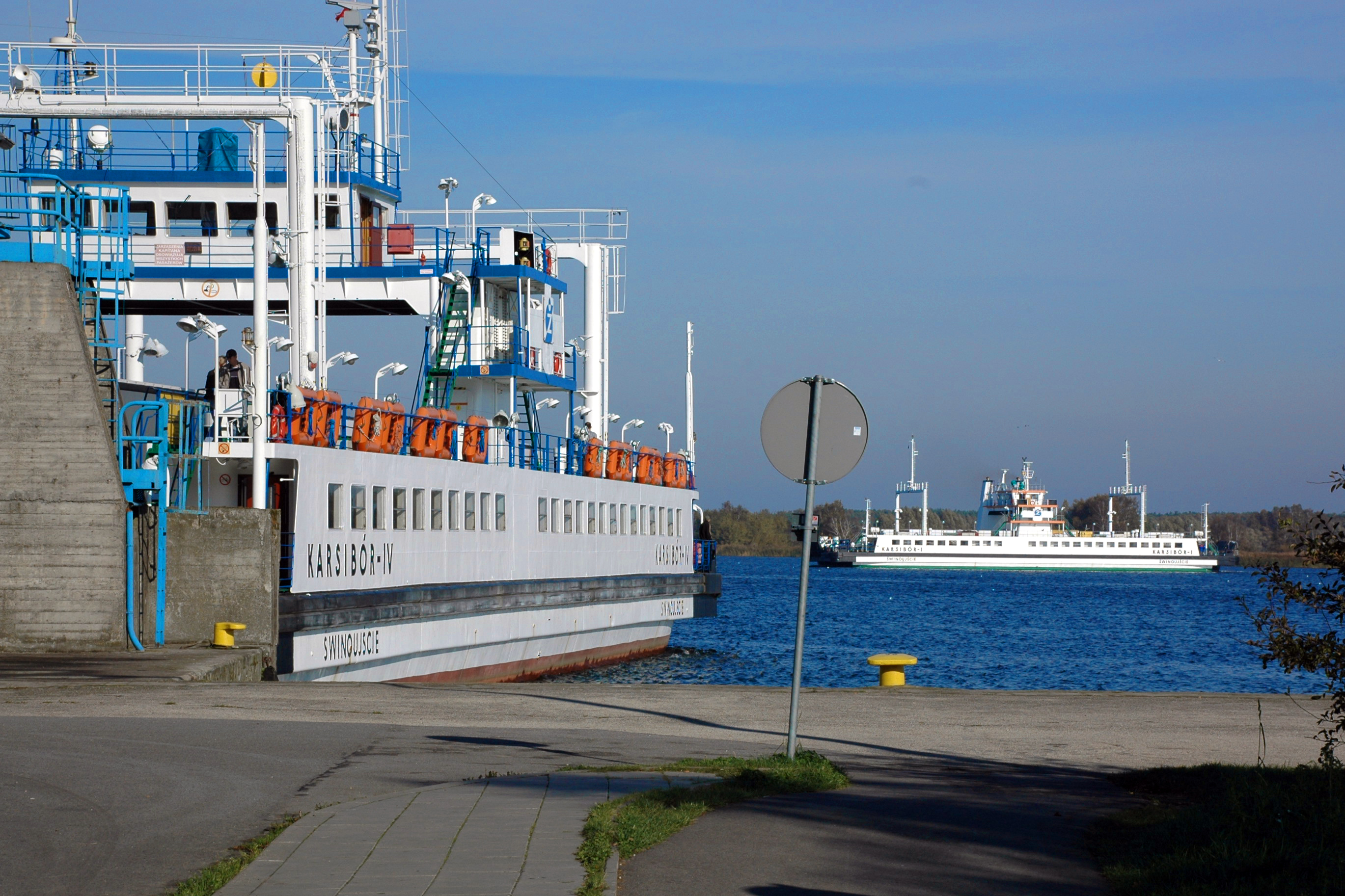 Promy Karsibór na przeprawie w Świnoujściu